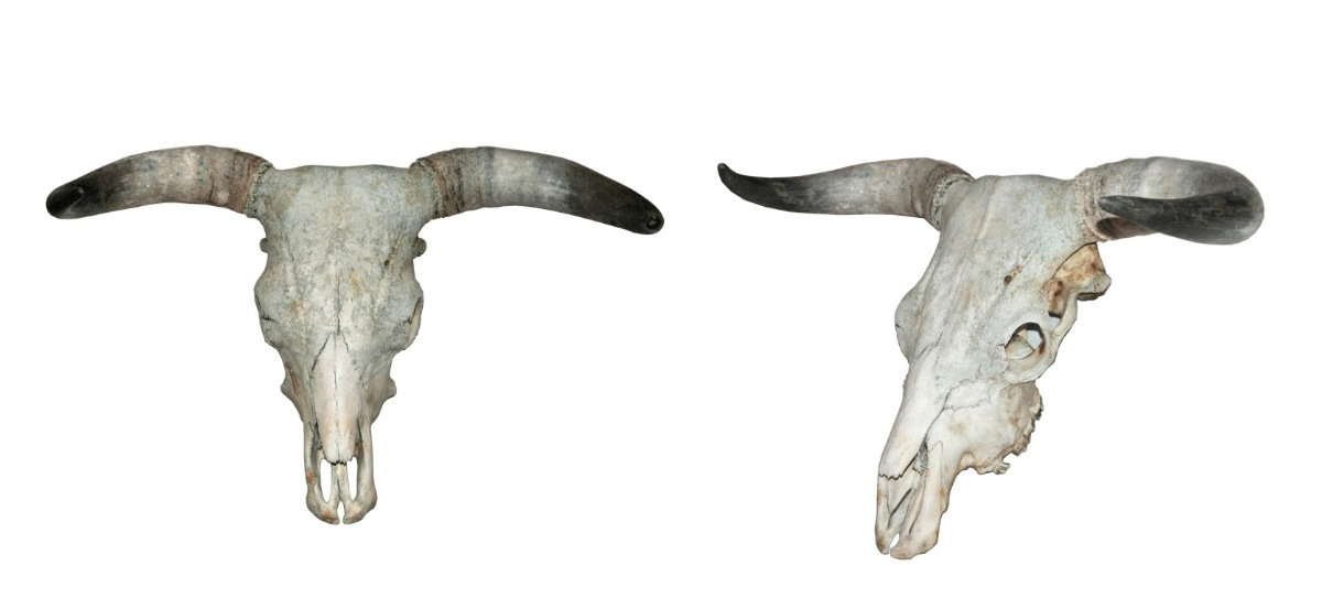 Skull of a Taurus bull, Lippeaue, Germany. Named Latino (50% Sayaguesa, 25% Fighting bull, 25% Heck cattle).